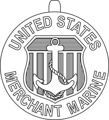 Merchant Marine service medals common reverse